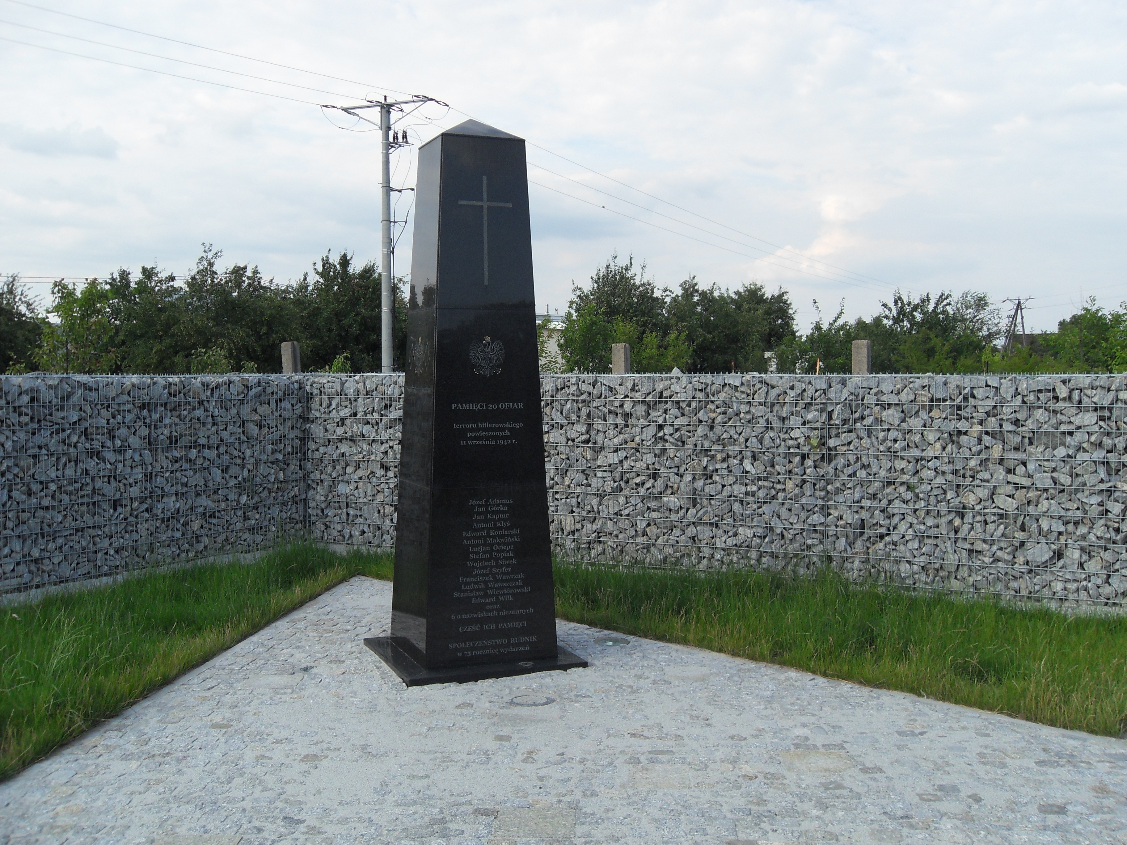 A monument commemorating 20 victims of German Nazi terror hung on 11 September 1942 in Rudniki near Częstochowa